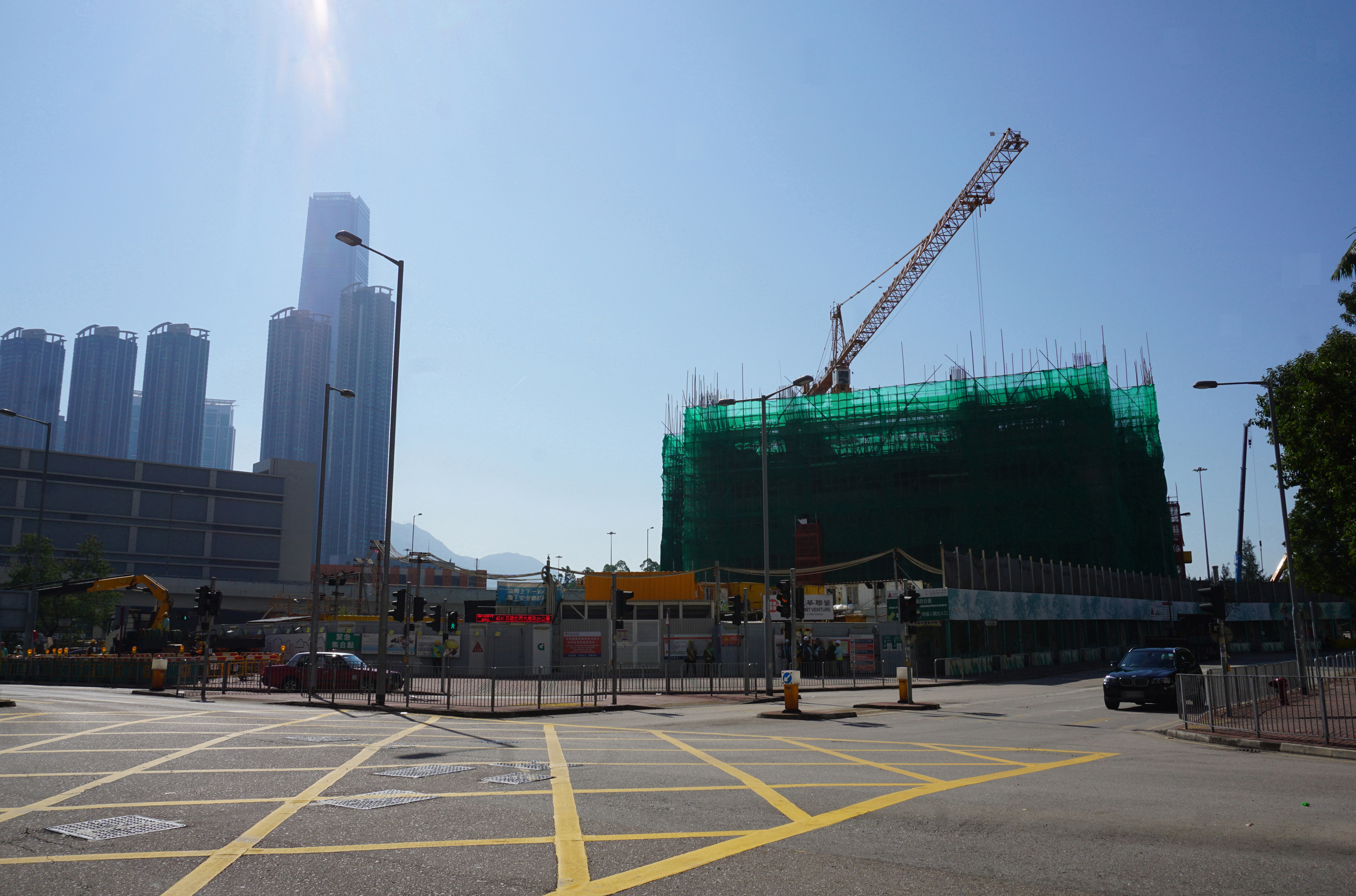 West Kowloon Government Offices in Yau Ma Tei, Hong Kong.